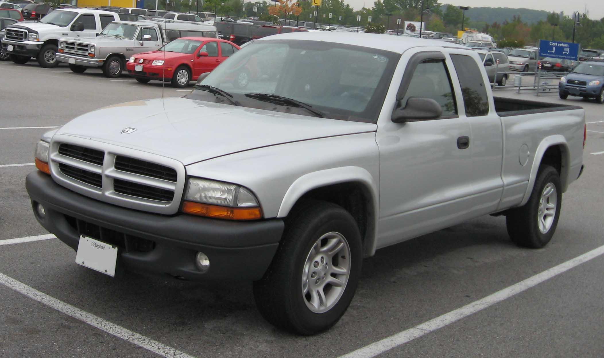 1997-2004 Dodge Dakota photographed in College Park, Maryland, USA.